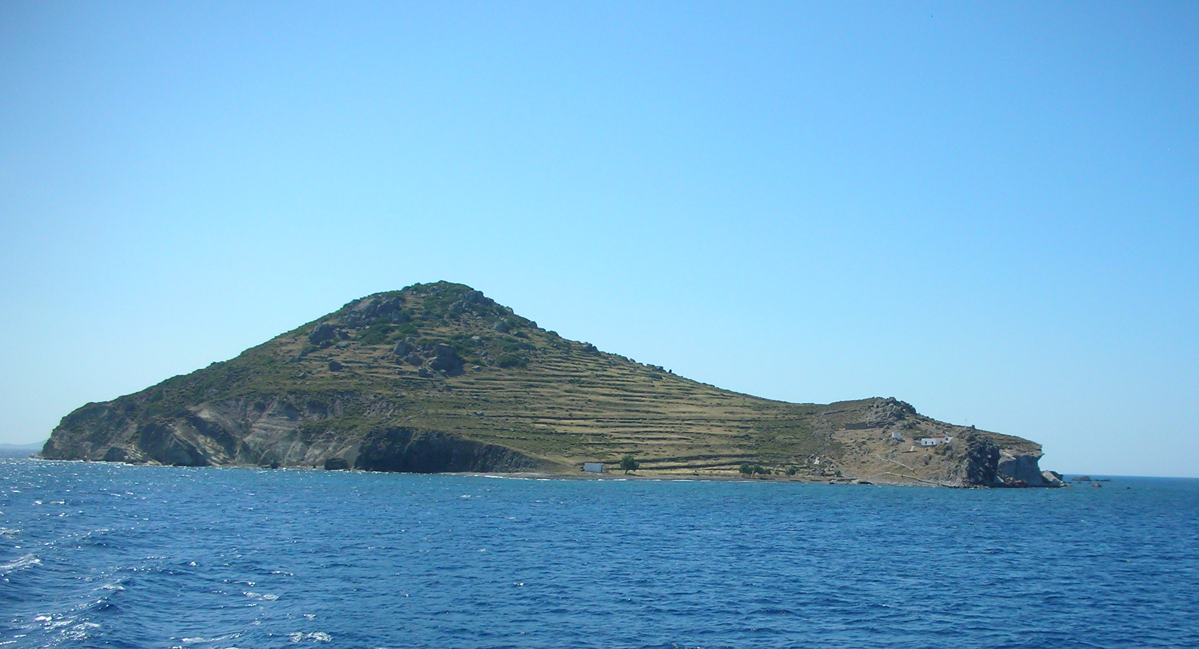 Chiliomodi island in Patmos, Greece